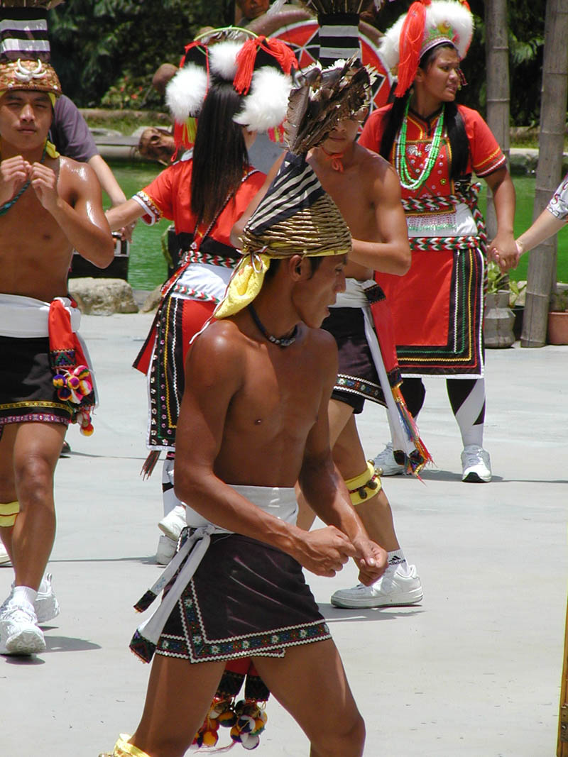 Formosan Aboriginal Culture Village